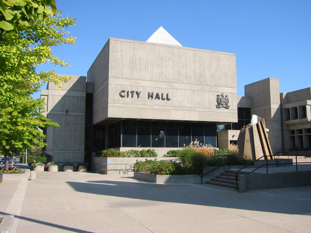 Photograph of Brantford city hall taken on October 1, 2001 by NormanEinstein.